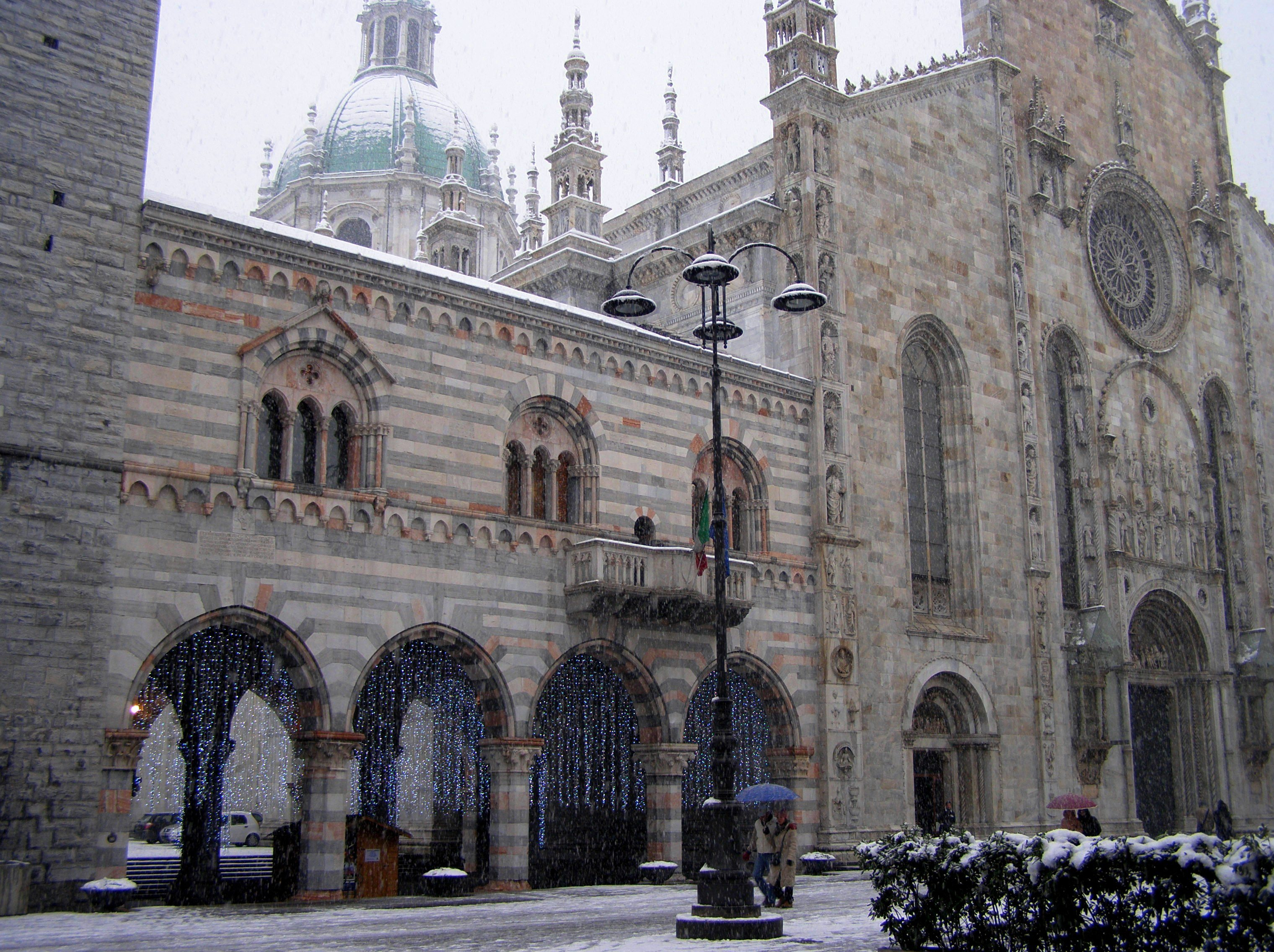 Como's Cathedral